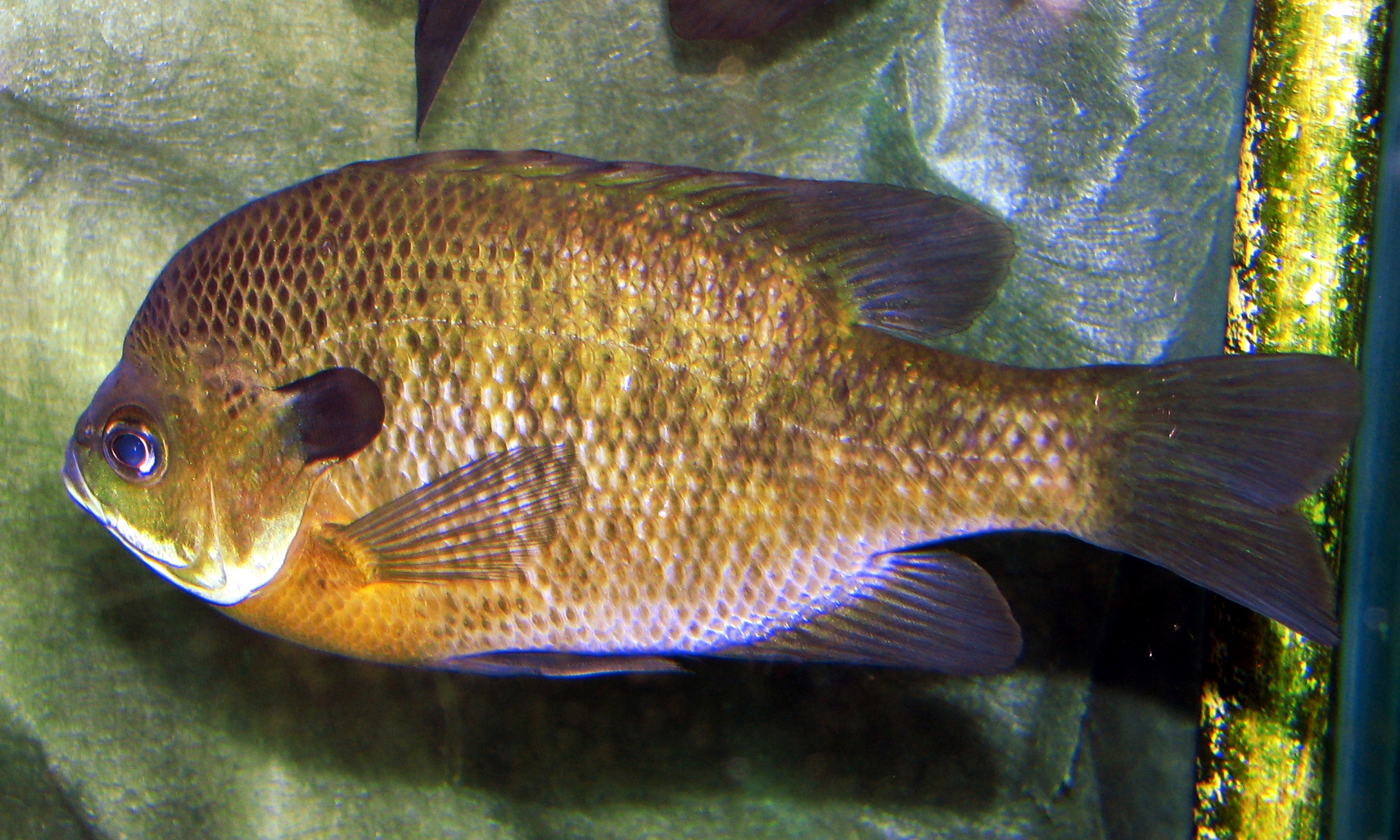 Bluegill (Lepomis_macrochirus) at Lousiville Zoo in Kentucky